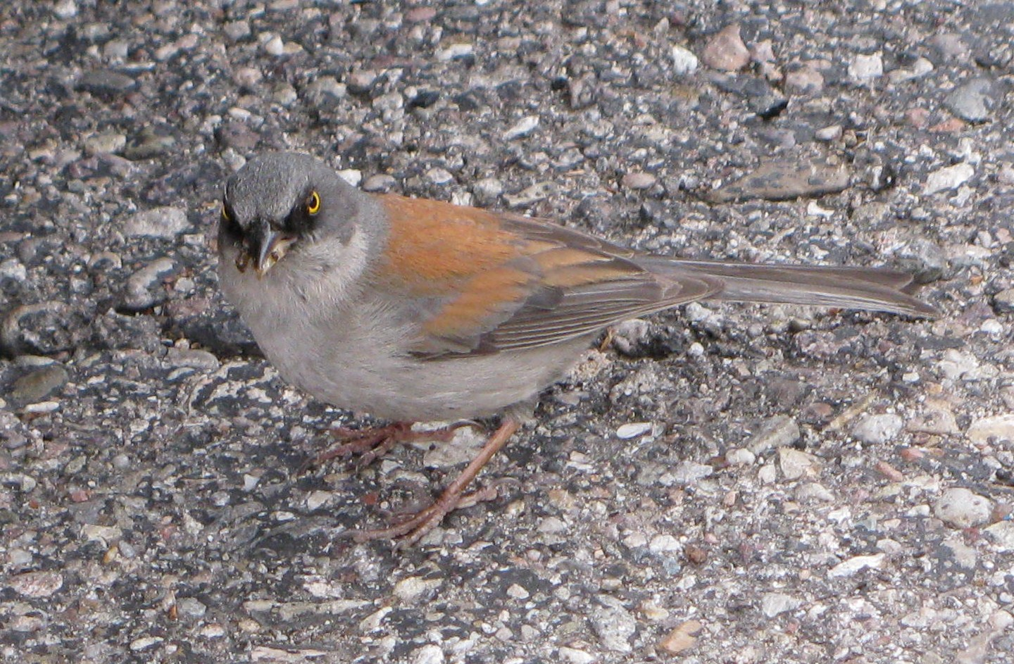 Yellow-eyed Junco Junco phaeonotus feeding on ants, Ski Valley, Mt. Lemmon, Arizona, USA 32°26'55"N 110°46'51"W.